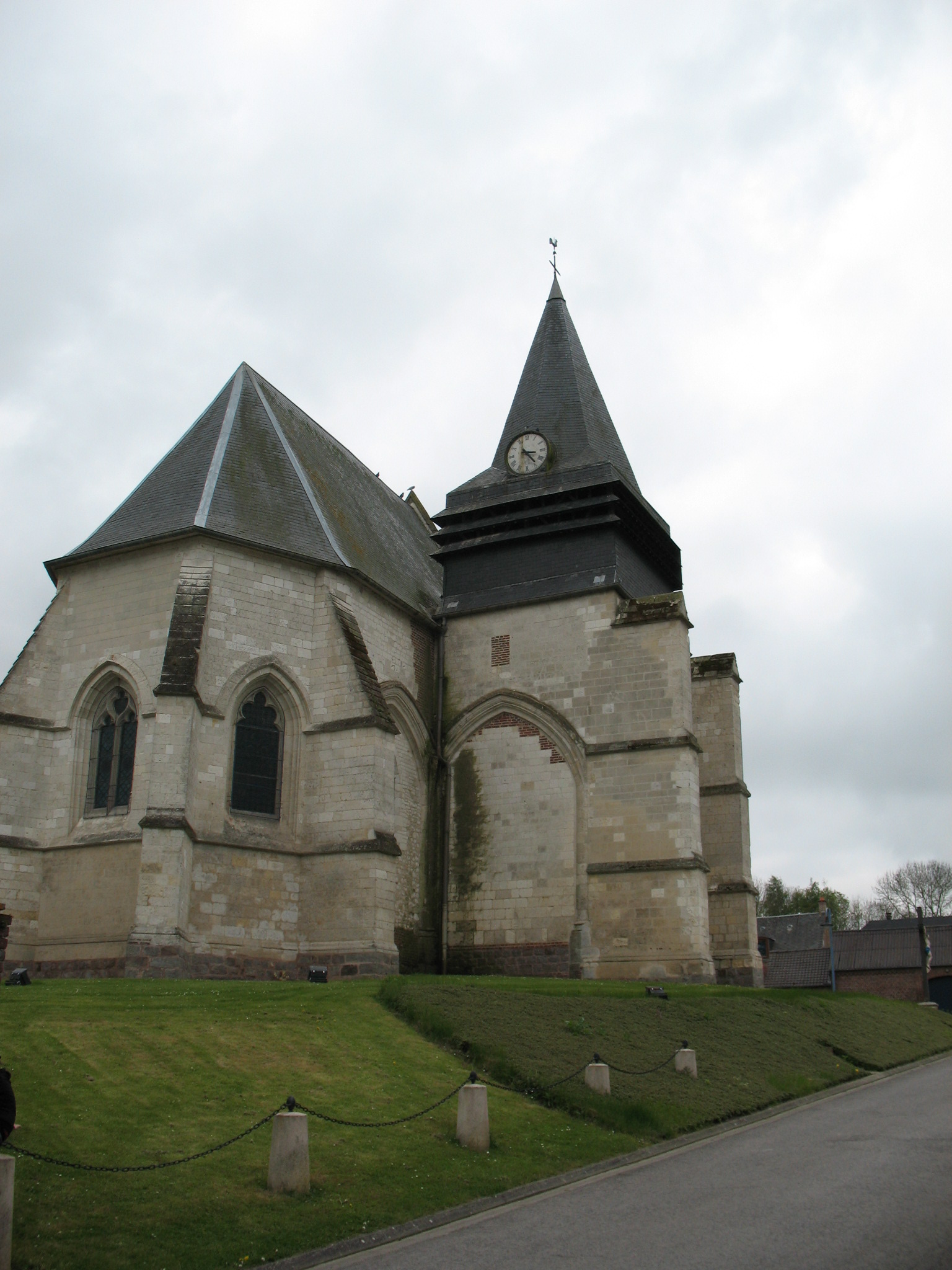 Apse and bell tower. Apse and bell tower are the oldest parts of the church (gothic 14 th century). As everyone can see the important abutments of the bell tower, its original spire had probably been made in openworked stones (current medieval built). The tower itself, is only one of the northern initial double transept. The second bay has disappeared more than two centuries ago ; only subsist two wall up arcades formerly opening on the tower and on the choir.